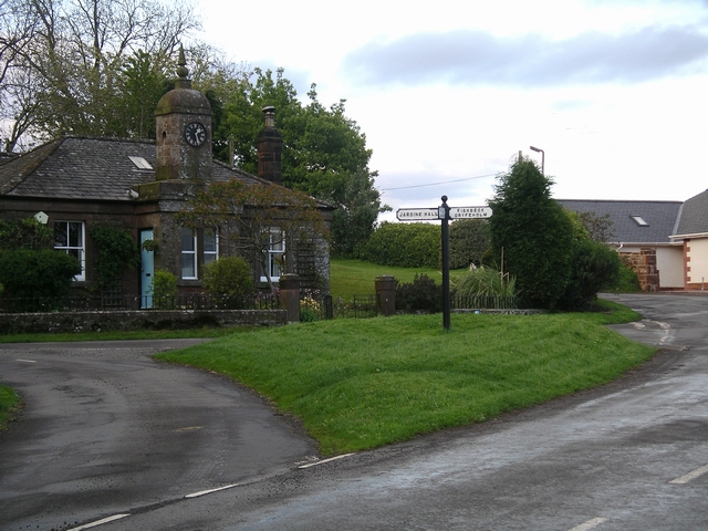 Cottage with clock tower in Milhousebridge, Dumfries and Galloway, presumably the former school